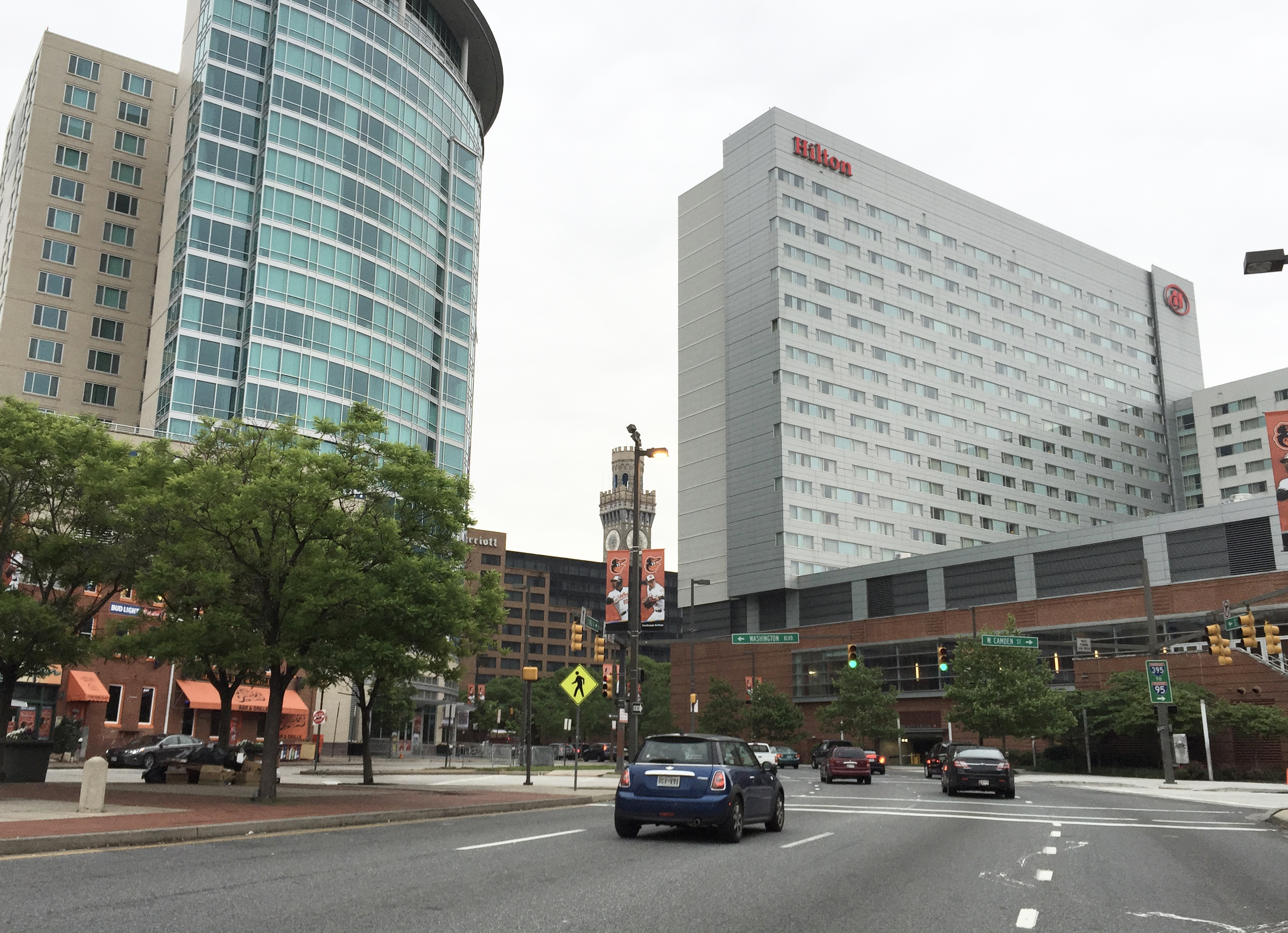 View north along Eislen Street (Maryland State Route 295) near West Camden Street in downtown Baltimore City, Maryland